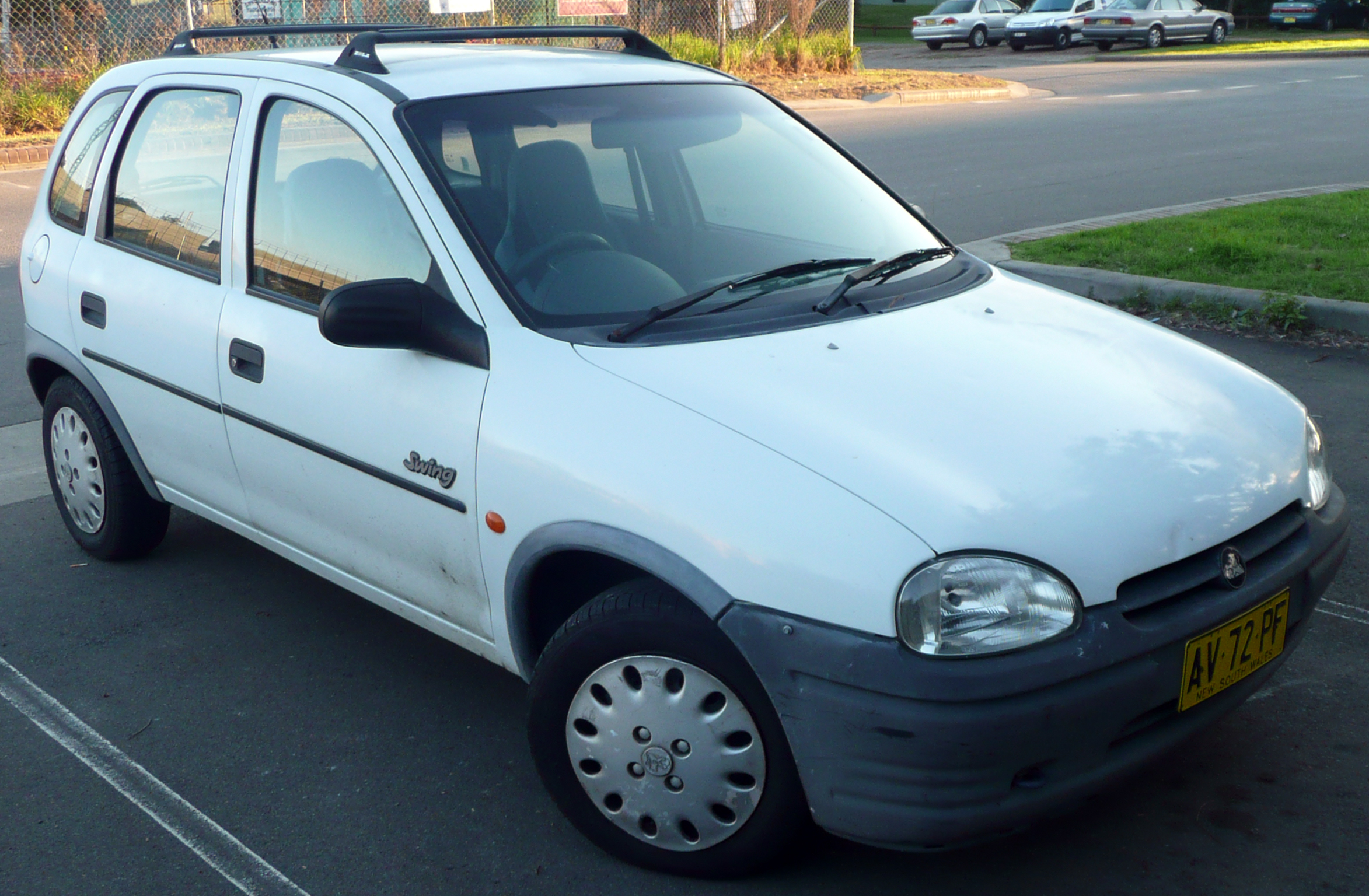 1995 Holden Barina (SB) Swing 5-door hatchback. Photographed in Sutherland, New South Wales, Australia.